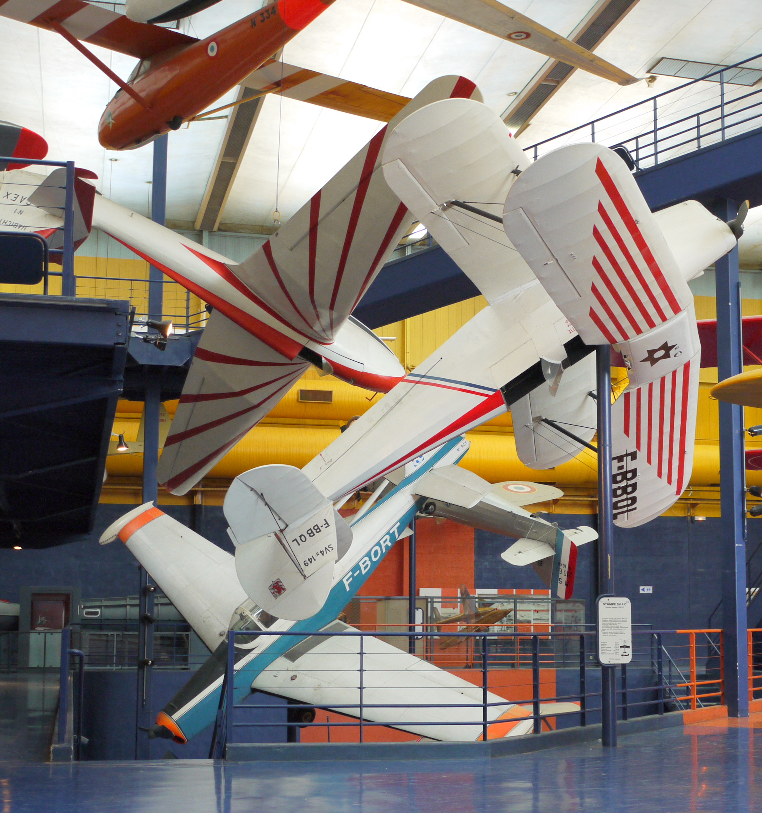 Aerobatic aircraft in the hall E of the museum of Air and Space Paris, Le Bourget (France)